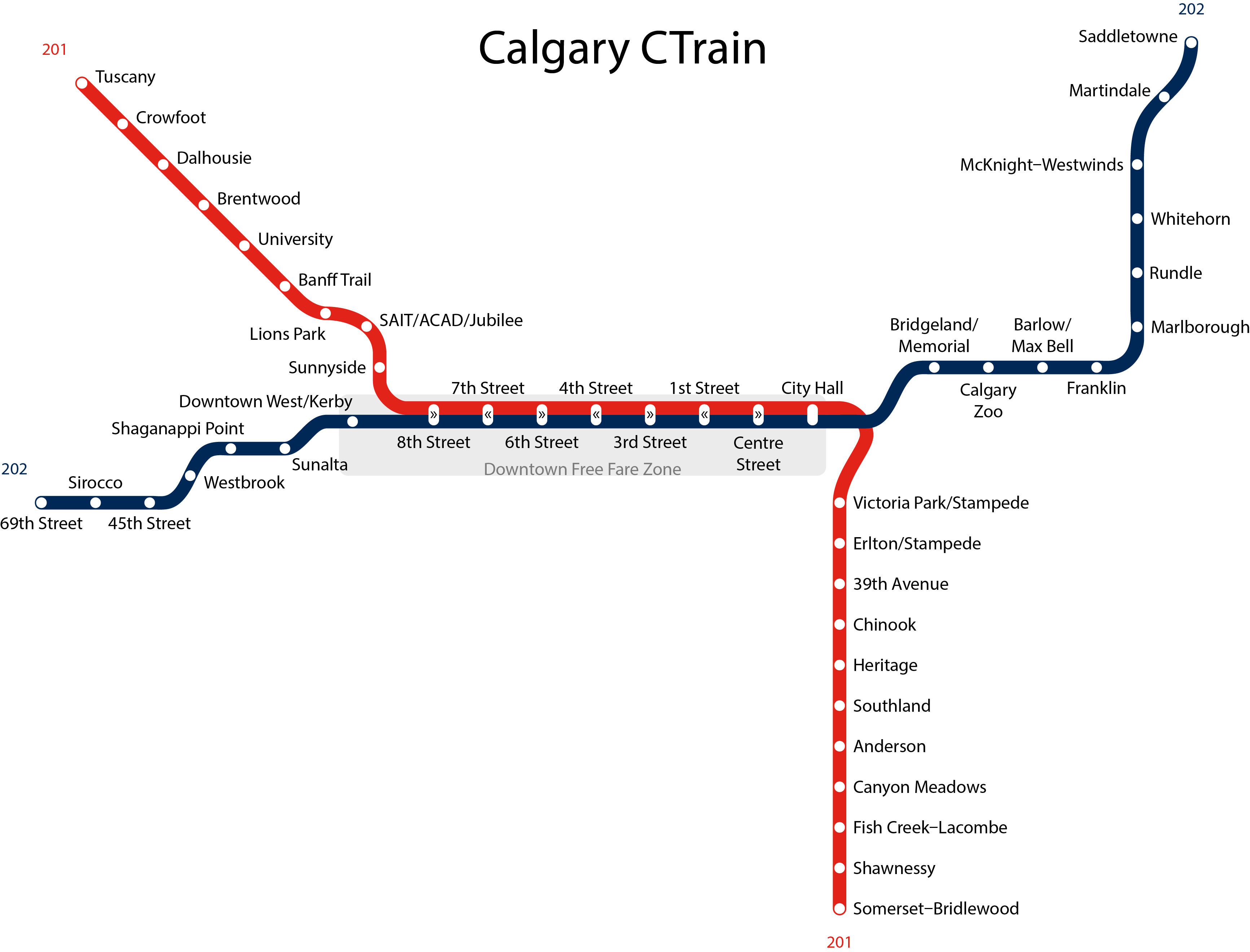 This is the map of Calgary's CTrain system as of January 2013.